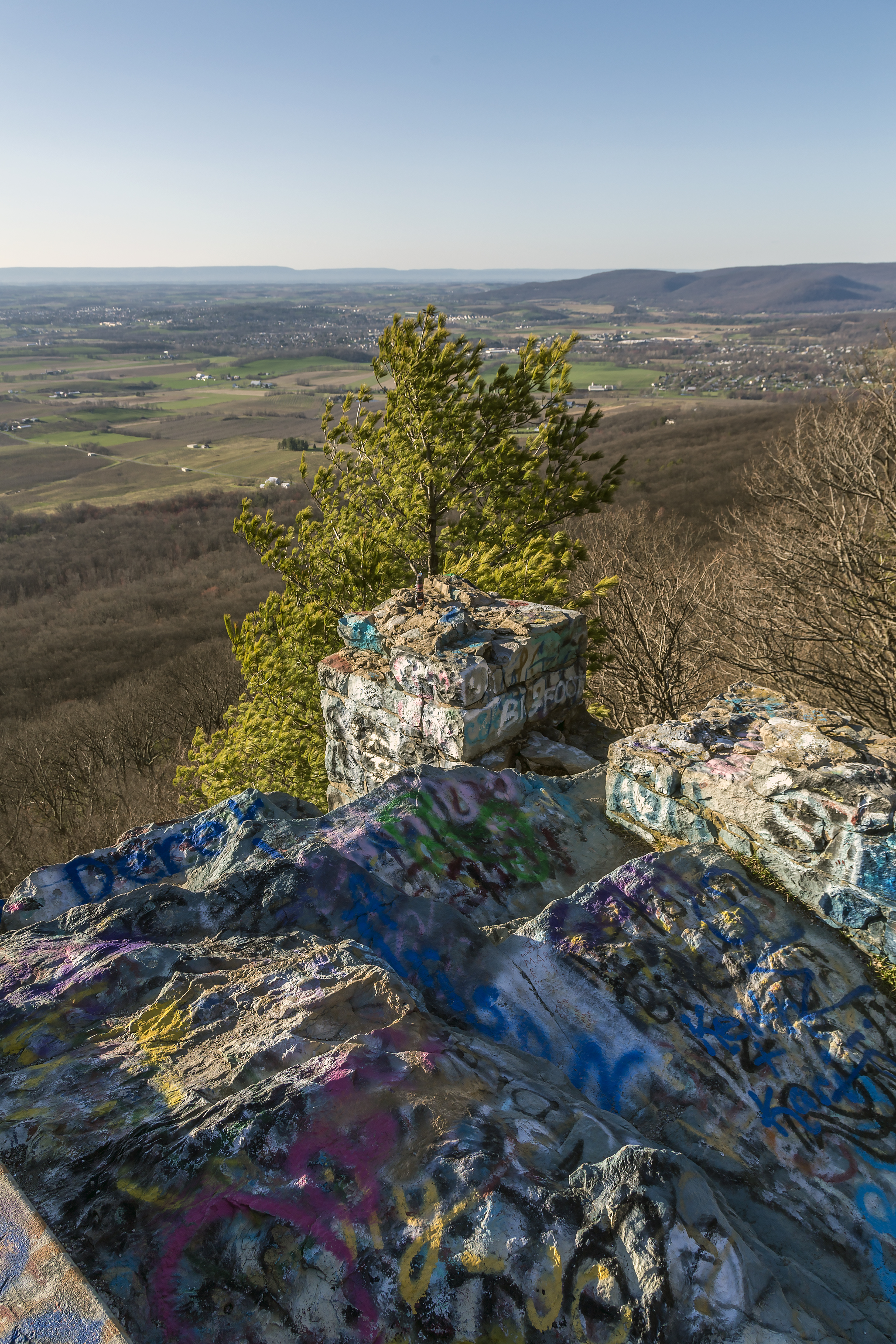 View of Waynesboro, Pennsylvania, USA from High Rock on Quirauk Mountain, Maryland, with painted graffitti